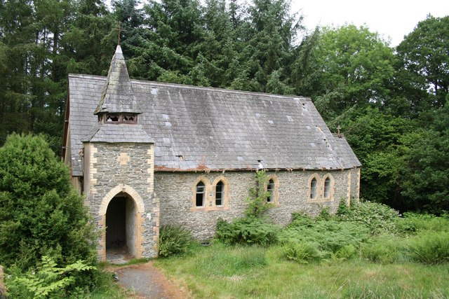 Goginan church. A year later than Nigel Callaghan's picture, Goginan church is still empty, disused and deteriorating.